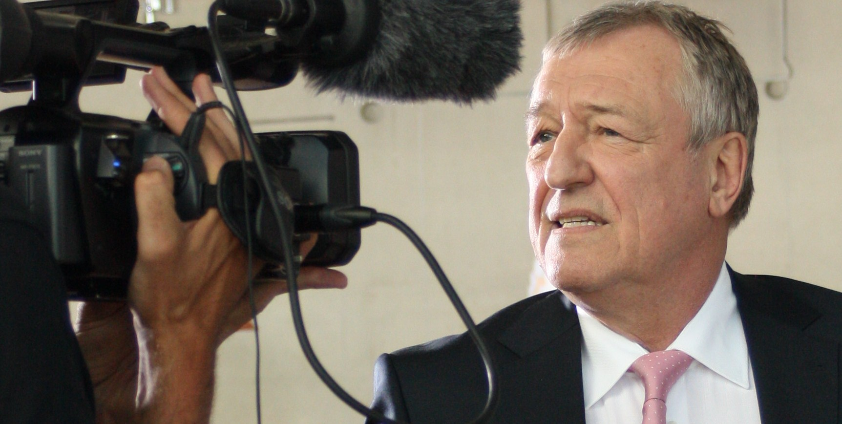 Tom Jansen (Photo by MaartenWijsbeek.nl